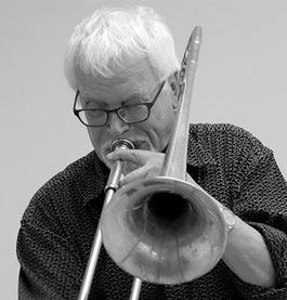 Ole Fessor Lindgrren